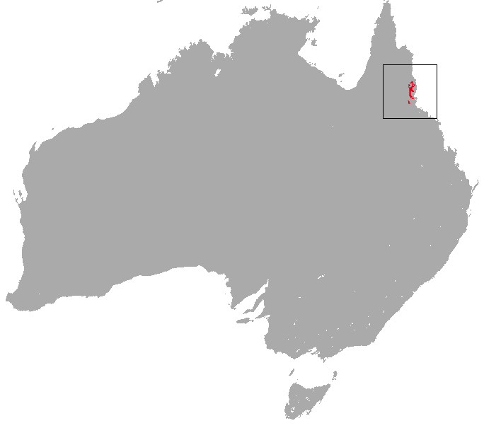 Herbert River Ringtail Possum (Pseudochirulus herbertensis) range